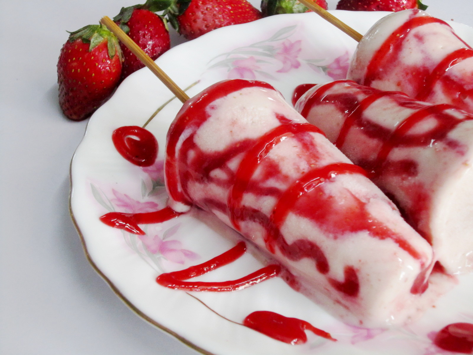 Homemade Strawberry Kulfi